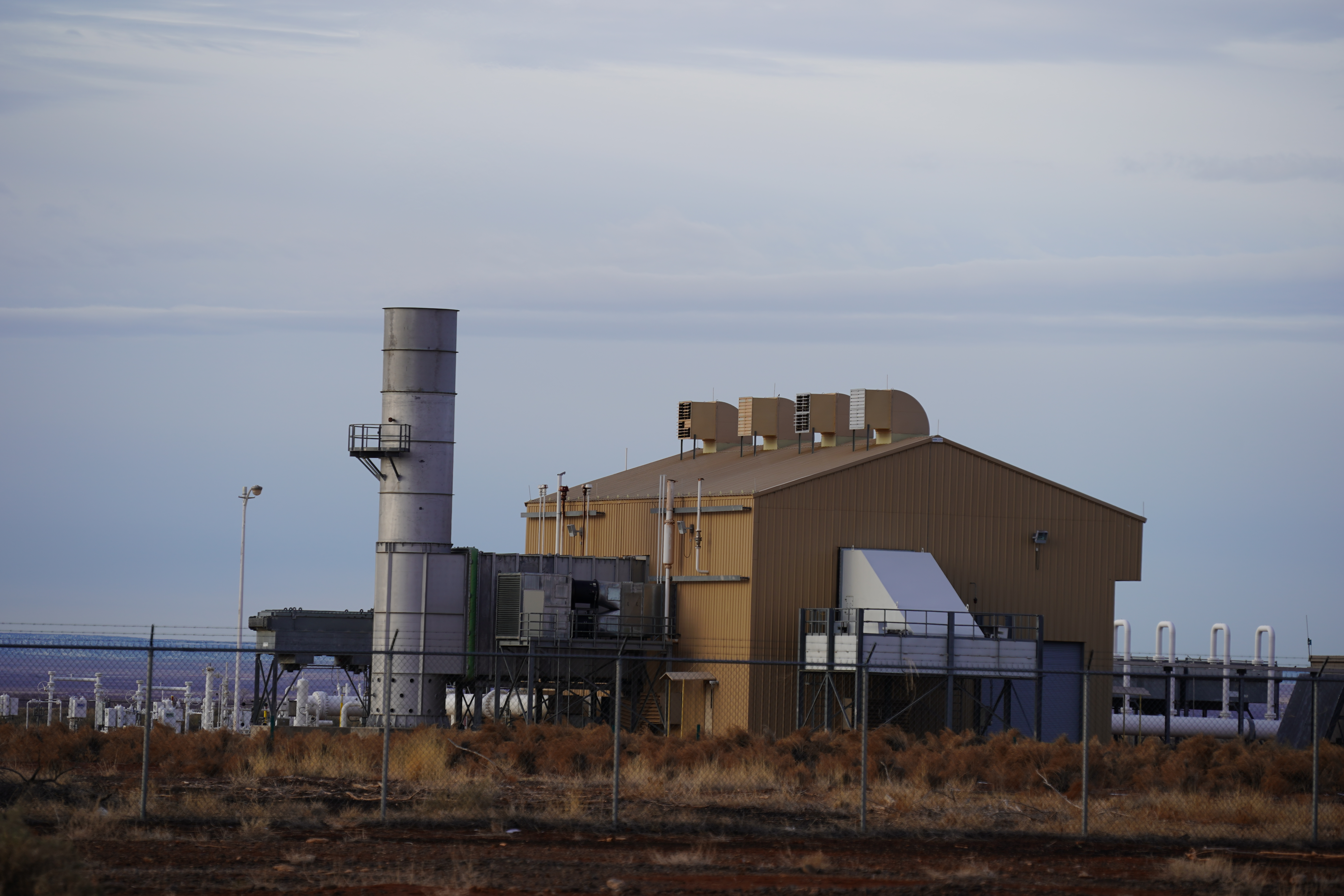 The photograph shows the main building of the Winslow Compressor Station located east of Leupp, Arizona. Photograph taken on 2019-02-27T14:56:34Z.